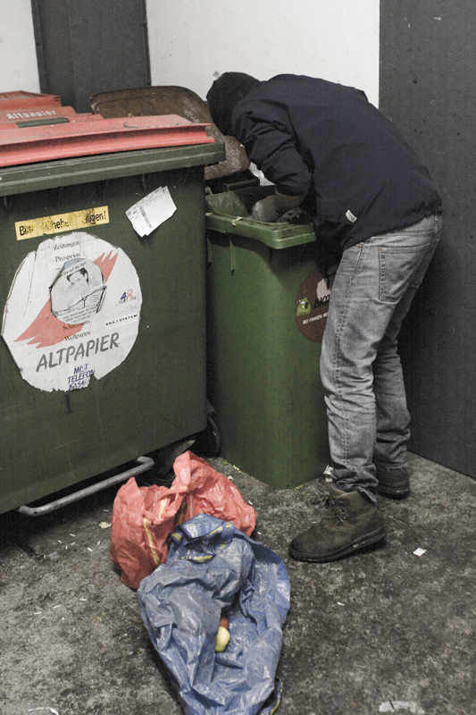 Freegan during dumpster diving